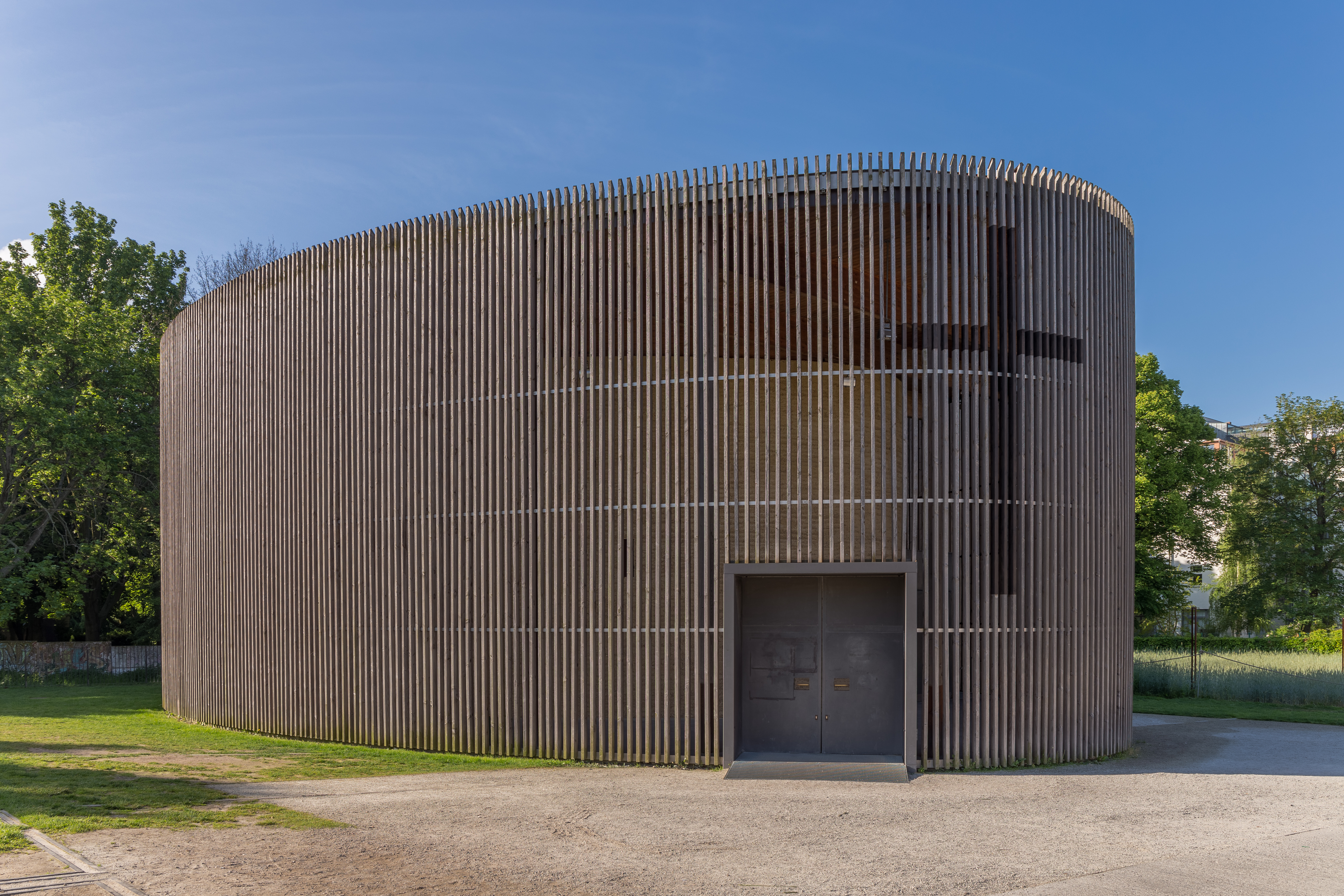 The Chapel of Reconciliation on the grounds of the Berlin Wall Memorial at Bernauer Strasse in Berlin. The chapel was designed by the architects Peter Sassenroth and Rudolf Reitermann and inaugurated on 9 November 2000.